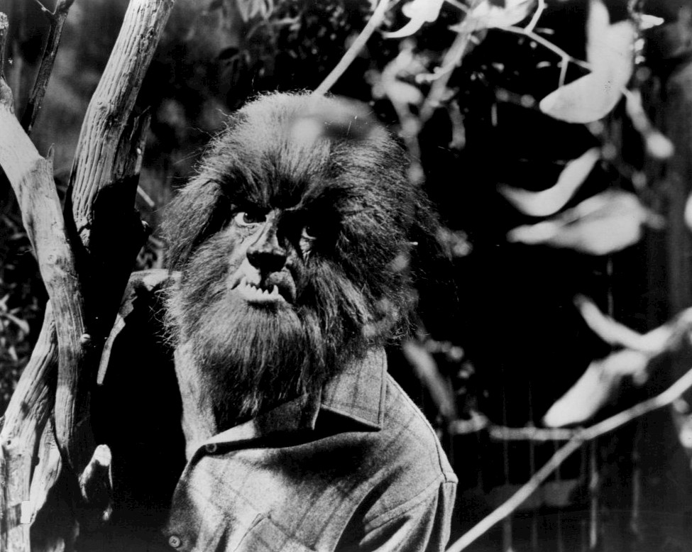 Photo of Alex Stevens as a werewolf from the supernatural daytime drama Dark Shadows.